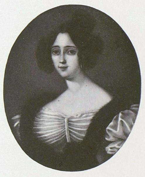 Yevdokiya Rostopchina